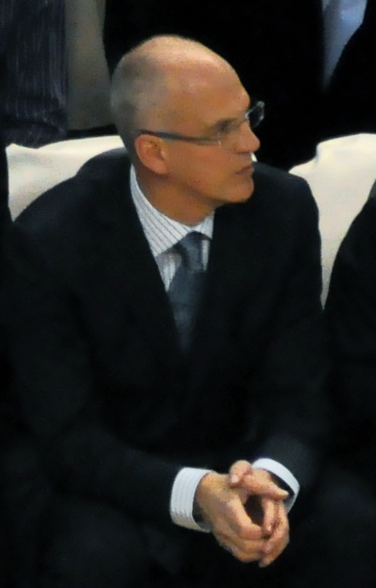 Jay Triano, Alex English, Marc Iavaroni Toronto Raptors